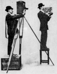 Kazimierz Prószyński`s aeroscope 1913.